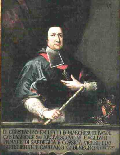 Raulo Costanzo Falletti, archbishop of Cagliari